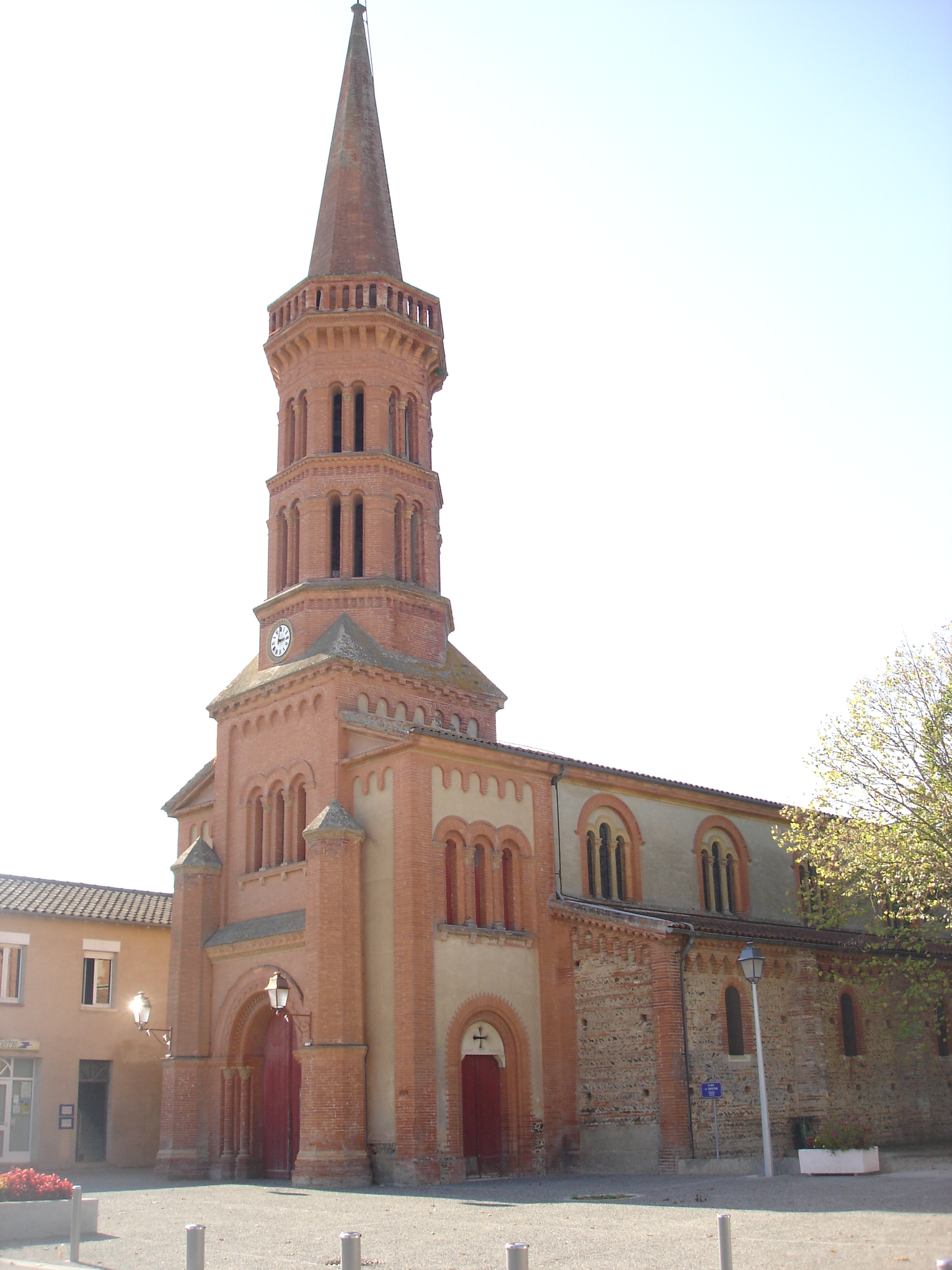 Labastidette church, Haute Garonne, France